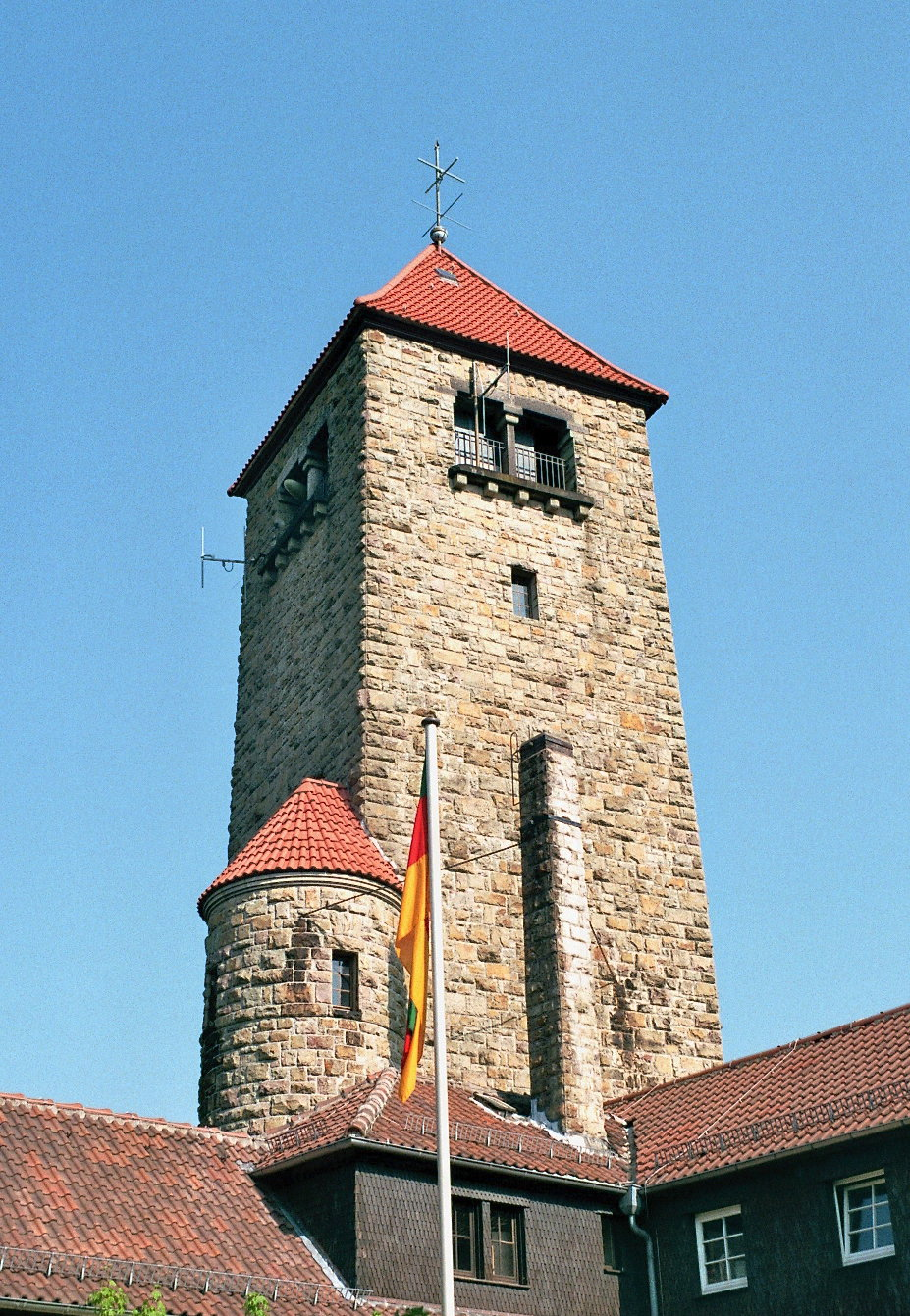 Tower of Wachenburg castle in Weinheim / Germany, 2011